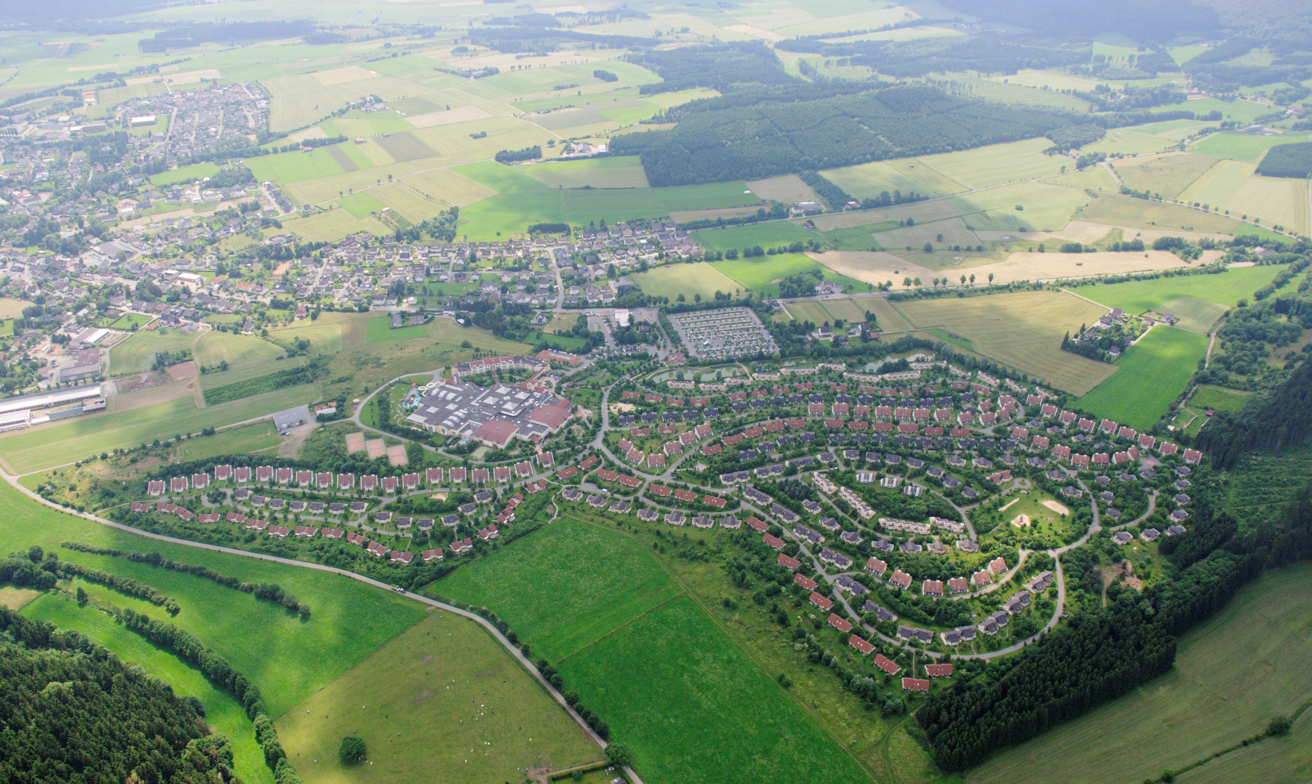 Fotoflug Sauerland-Ost, Medebach, Erlebnisbad „Aqua Mundo“, Centerpark Hochsauerland The making of this document was supported by the Community-Budget of Wikimedia Germany.